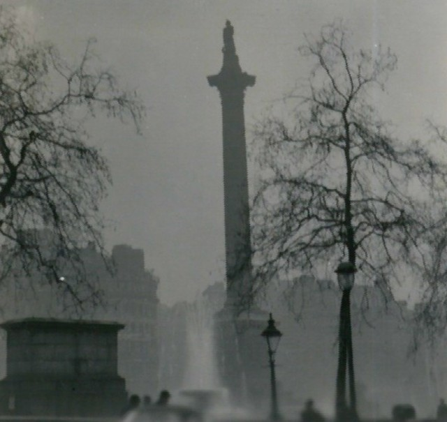 Nelson's Column during the Great Smog of 1952 Original description: Nelson's Column in December. Foggy Day in December 1952.